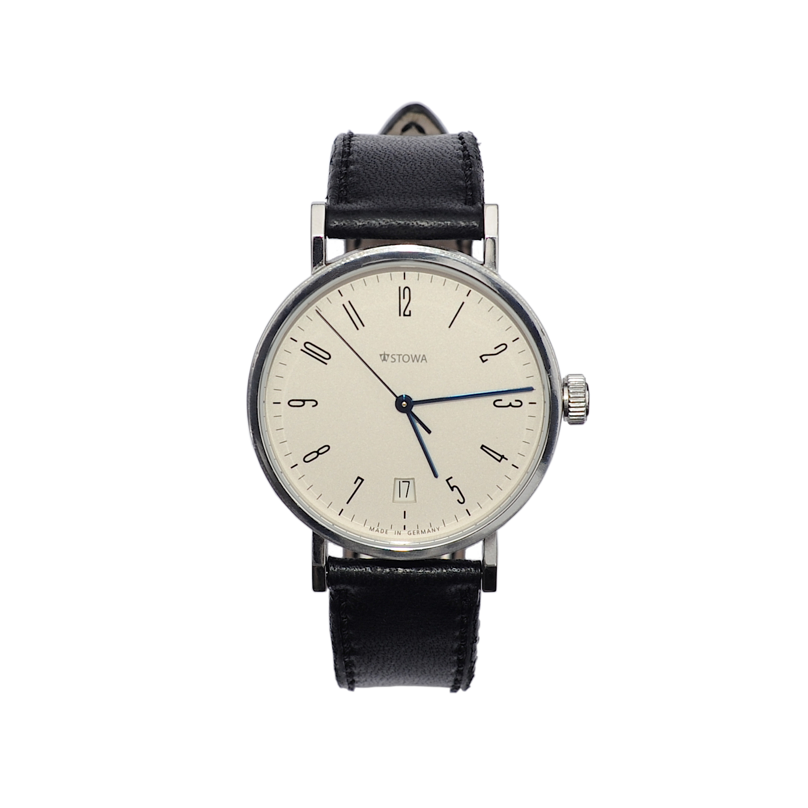 This picture shows a Stowa Antea Klassik 365. The diameter is 36.5 mm.